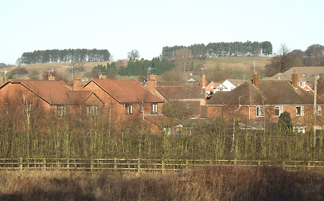 Rooftops and Hillside, Himley, Staffordshire From the embankment of the old railway walk.